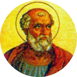 Portait of Pope Eutychian in the Basilica of Saint Paul Outside the Walls, Rome